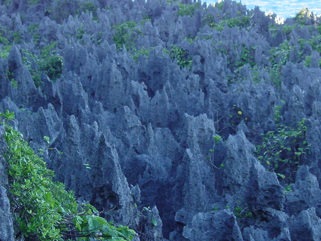 Niue, Coral Chasm. Before reaching the chasm, one must follow a path through a field (strip) of needle rocks of coral limestone. The Niue Island is surrounded by steep limestone cliffs about 25 meters high, and a coastal strip of average 500 meters wide formed from coral origin limestone.